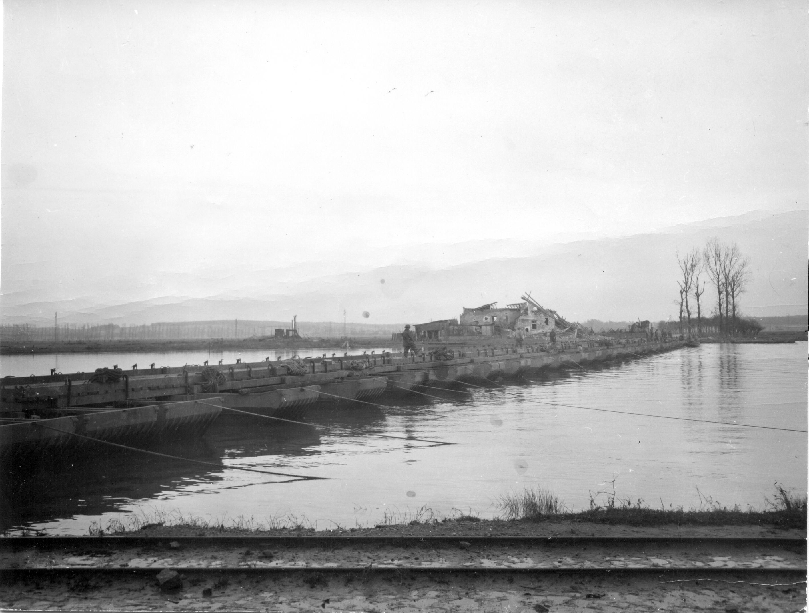 730 foot Heavy Ponton Bridge built at Uckange, France, by 1139th Engineer Combat Group, Nov 17 1944